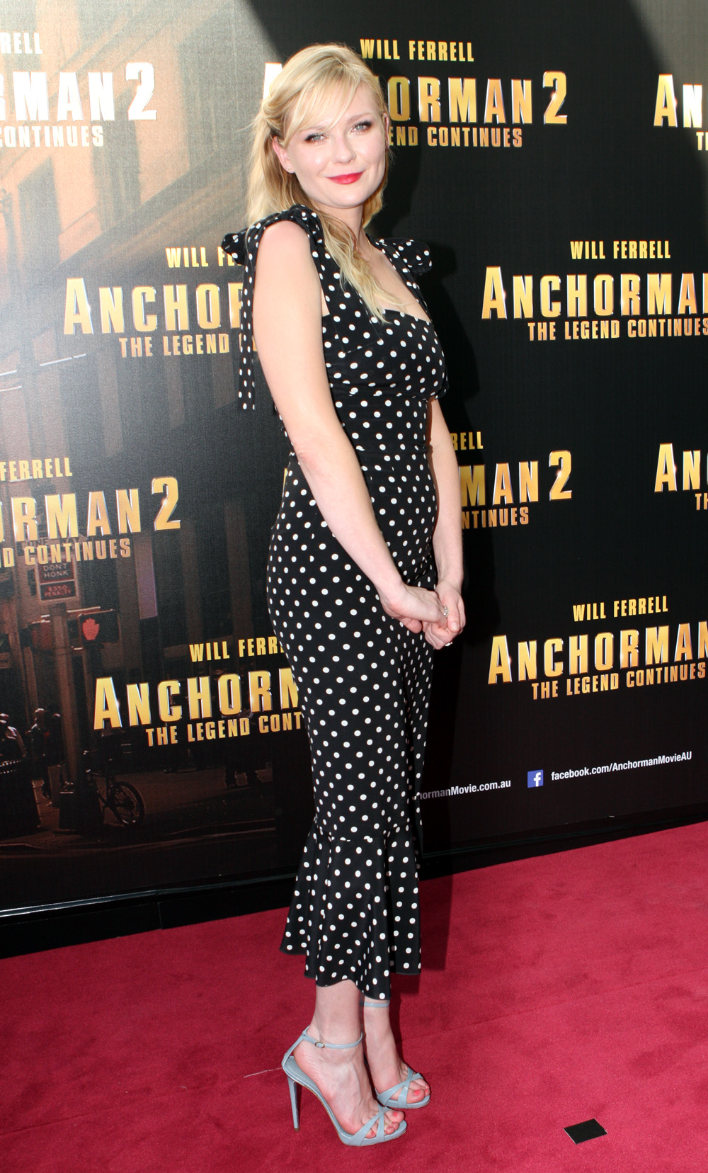 Anchorman 2 The Australian Premiere The Legend Continues